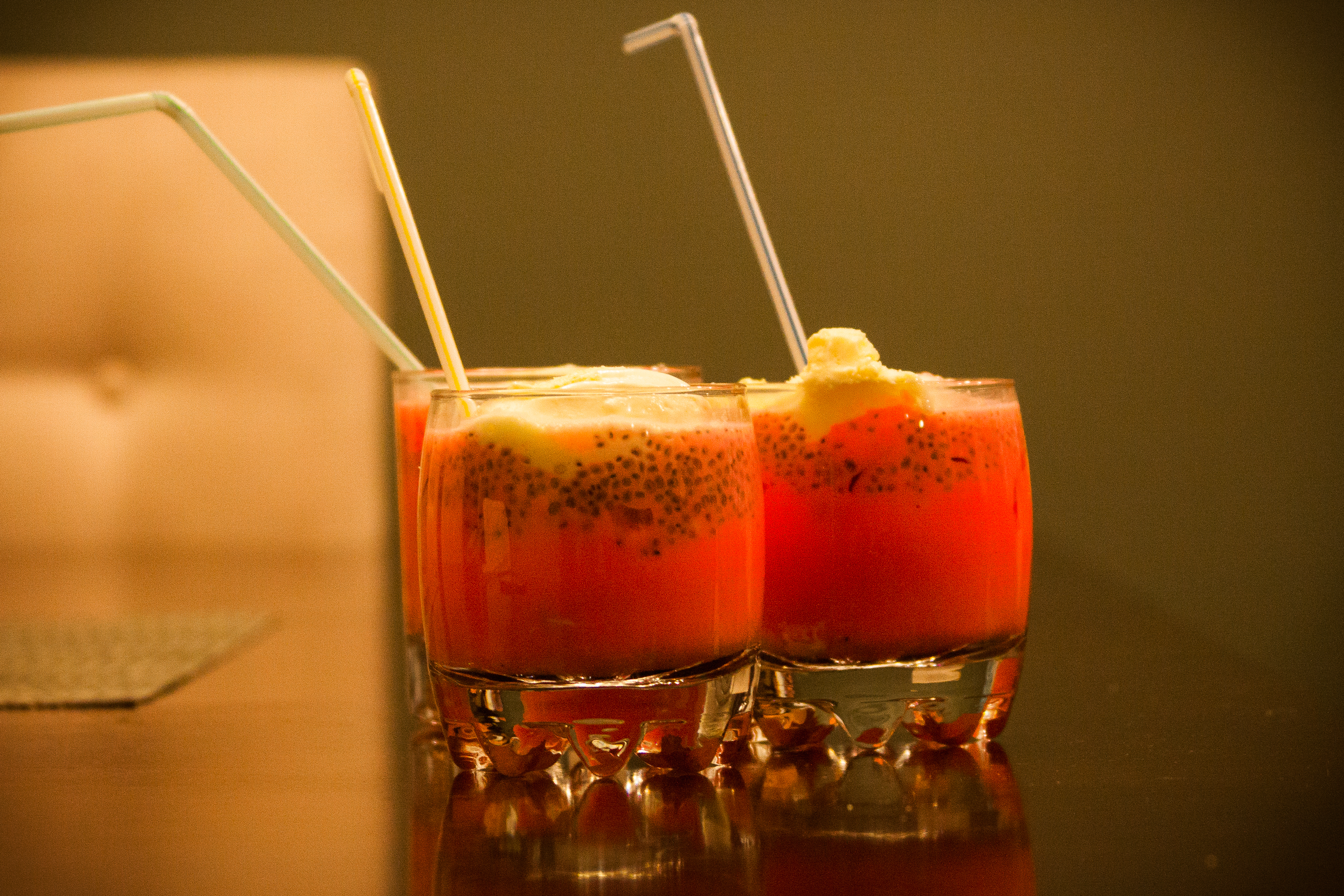 Rose Falooda